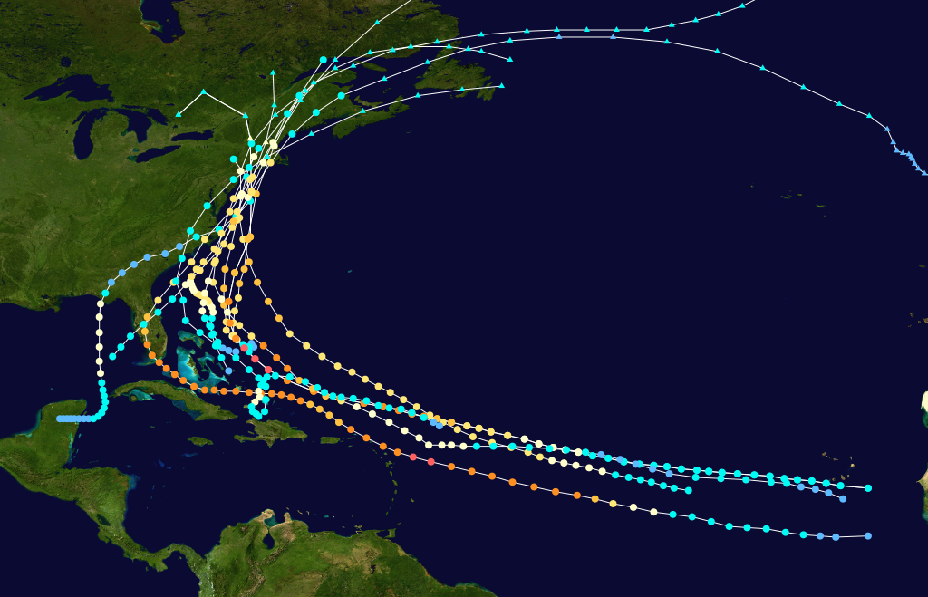 Track map of all landfalling New York hurricanes The points show the location of the storm at 6-hour intervals. The colour represents the storm's maximum sustained wind speeds as classified in the Saffir-Simpson Hurricane Scale (see below), and the shape of the data points represent the nature of the storm, according to the legend below. Saffir–Simpson scale Tropical depression≤38 mph≤62 km/h Category 3111–129 mph178–208 km/h Tropical storm39–73 mph63–118 km/h Category 4130–156 mph209–251 km/h Category 174–95 mph119–153 km/h Category 5≥157 mph≥252 km/h Category 296–110 mph154–177 km/h Unknown Storm typeTropical cycloneSubtropical cycloneExtratropical cyclone / Remnant low / Tropical disturbance